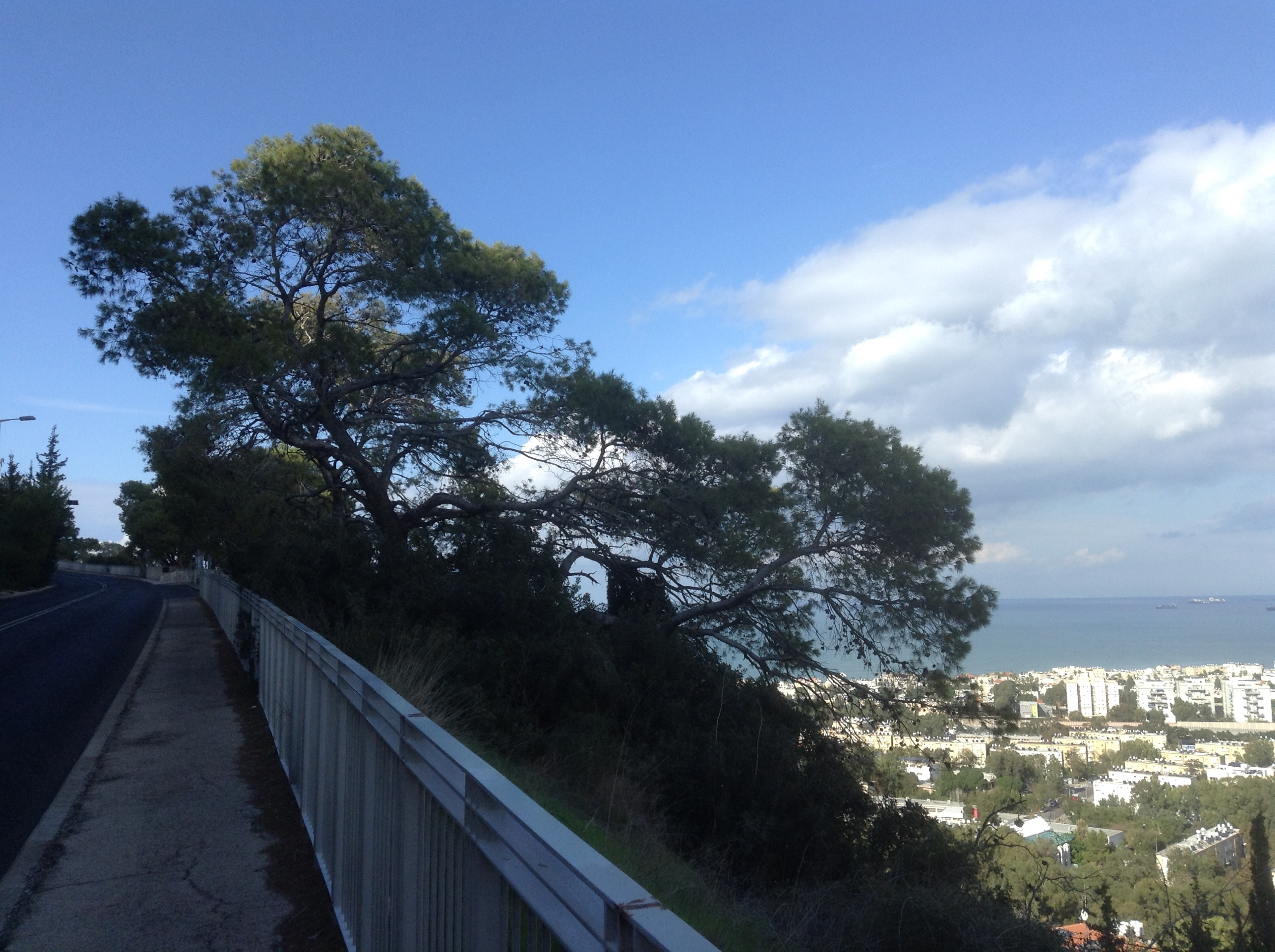 Mount Carmel